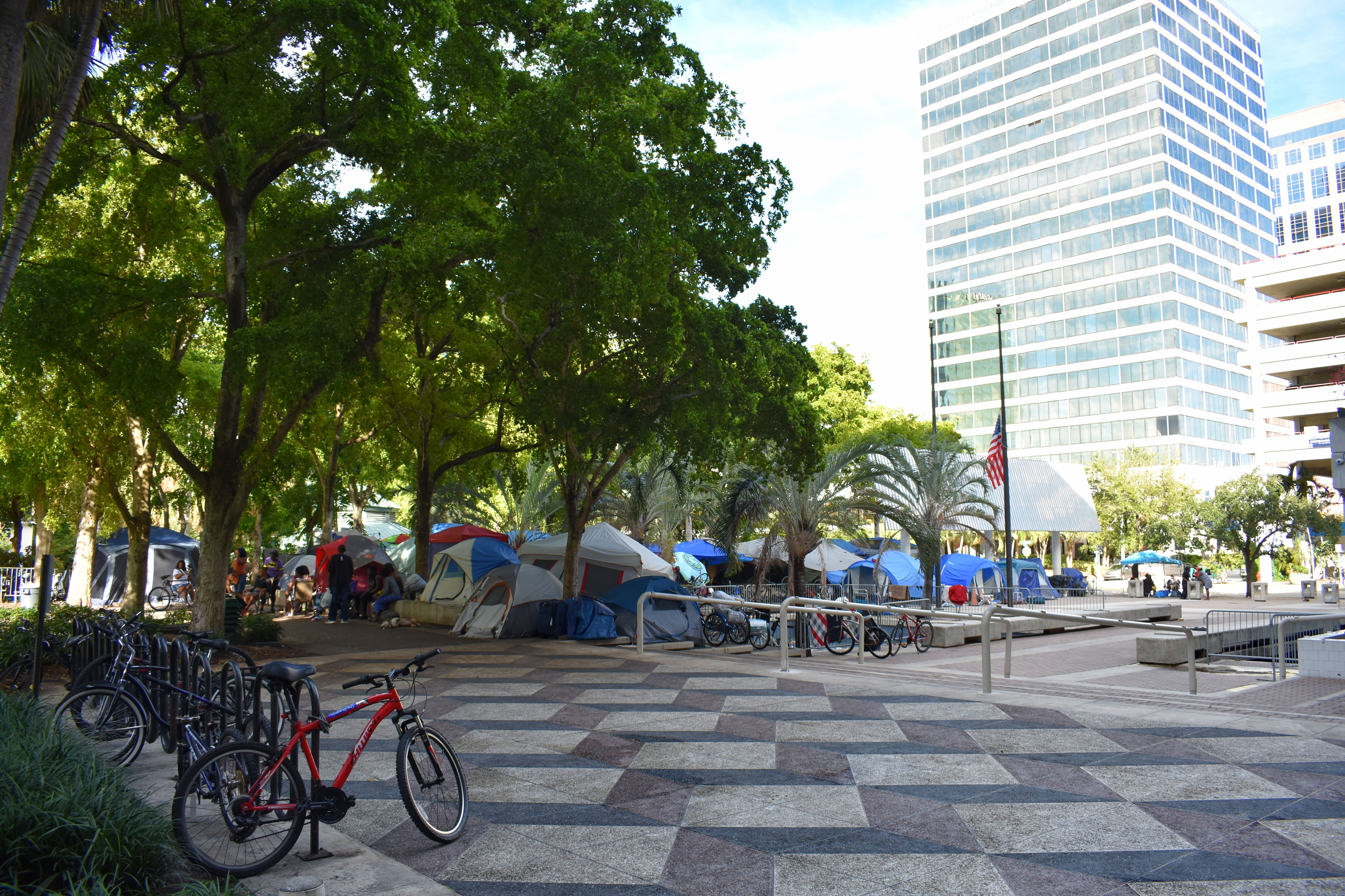 Near the Broward County Main Library in Fort Lauderdale, Florida, is a homeless camp, bivouacked adjacent to the Historic Walkway and a memorial plaque describing the Riparian Rights Lawsuit (1914-1918) which established public control of the riverfront. The camp relocated from Stranahan Park to the library in 2017.